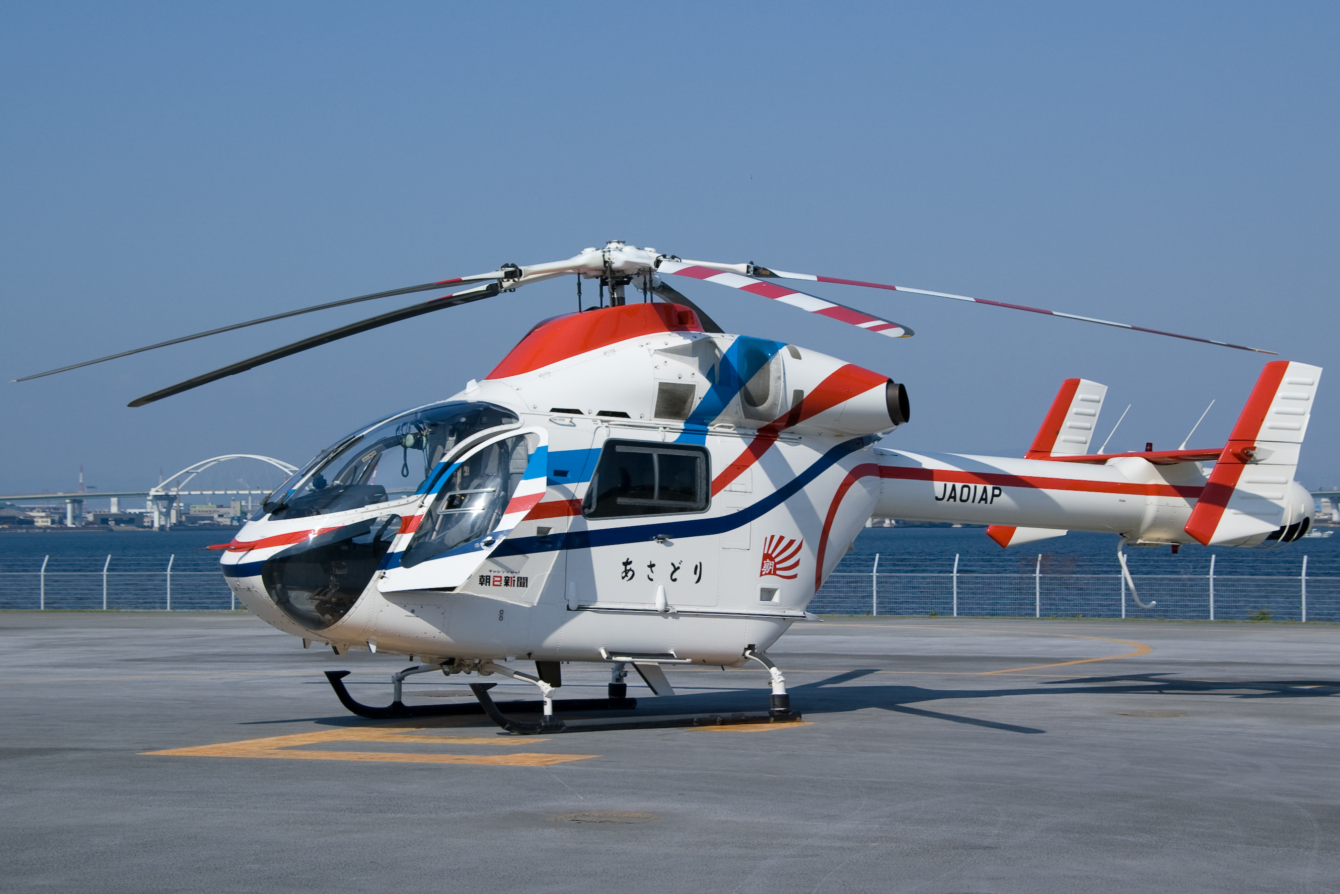 Photograph of Asahi Shimbun Company's MD902 (JA01AP, Asadori), taken at Maishima Heliport in Konohana-ku, Osaka, Osaka Prefecture, Japan.